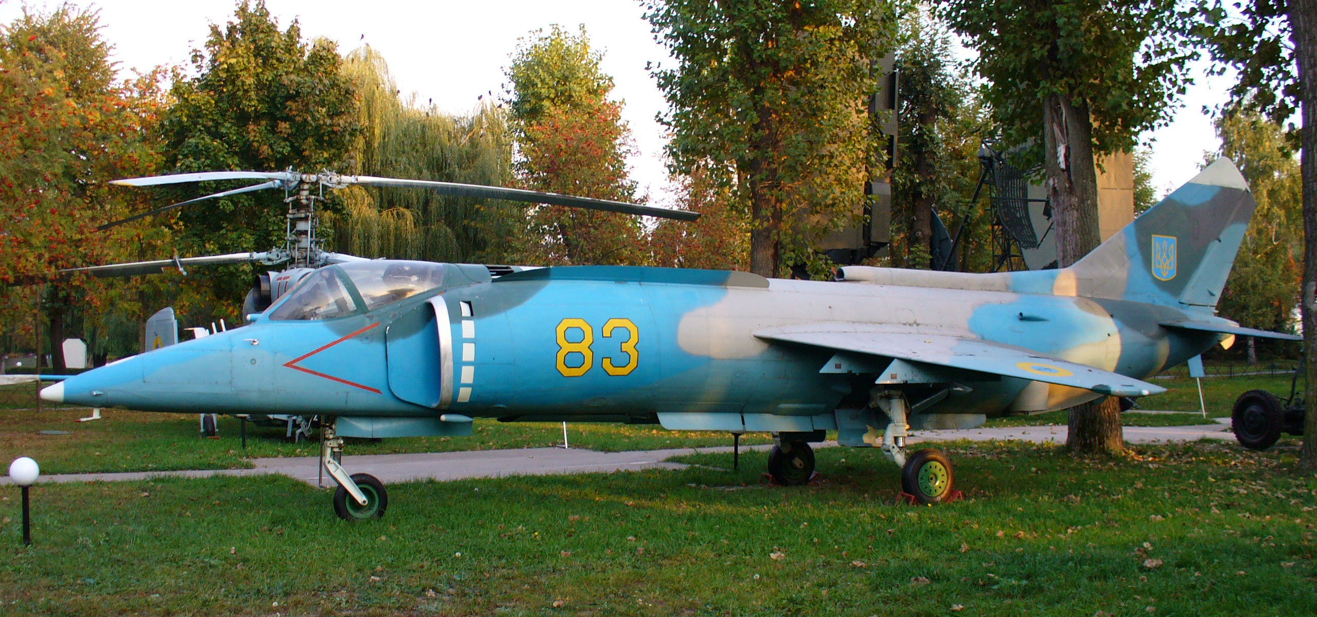 Yakovlev Yak-38M (NATO reporting name Forger). Soviet Naval Aviation's first multi-role combat aircraft. Ukrainian Air Force Museum in Vinnitsa.